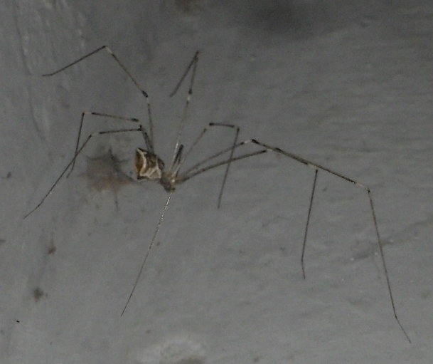 A tailed cellar spider (Crossopriza lyoni). This spider is commonly found in houses in Tamil Nadu, India. It never harms humans, but eats unwanted insects.